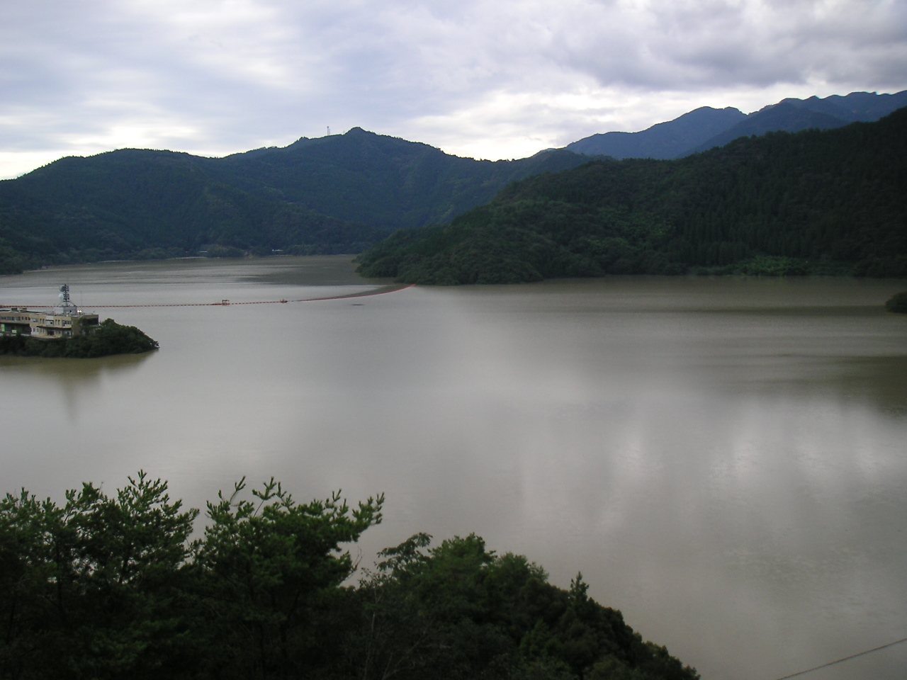 Sameura dam, Kochi prefecture, Japan